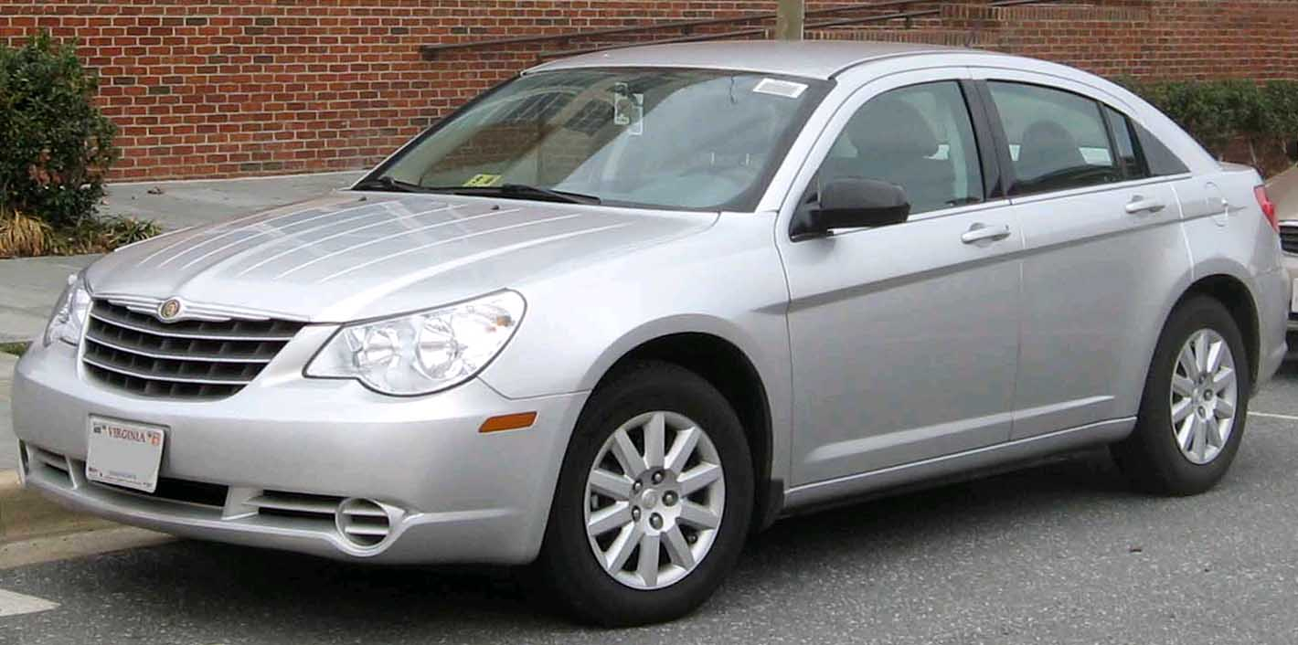 2007-2008 Chrysler Sebring photographed in College Park, Maryland, USA.